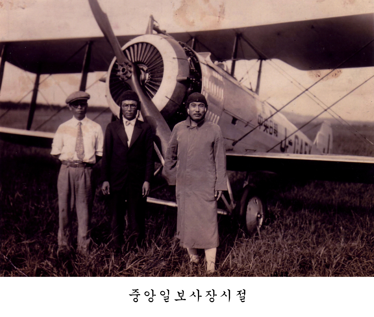 1934. the president of the Choson JungAng Ilbo Yuh Woon-Hyung. (Over 76years)